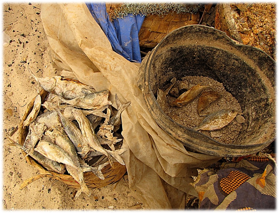 Salt-cured fish popular as flavoring in ceebu jen/thiéboudiène and other dishes of Senegal. Shown: the bucket in which fish are packed between layers of coarse sea salt, and the salted fish guedj (Wolof language) after removal, ready for the next, finishing steps before cutting into chunks and packing to be transported and sold throughout the country. Guet Ndar, St. Louis, Senegal.